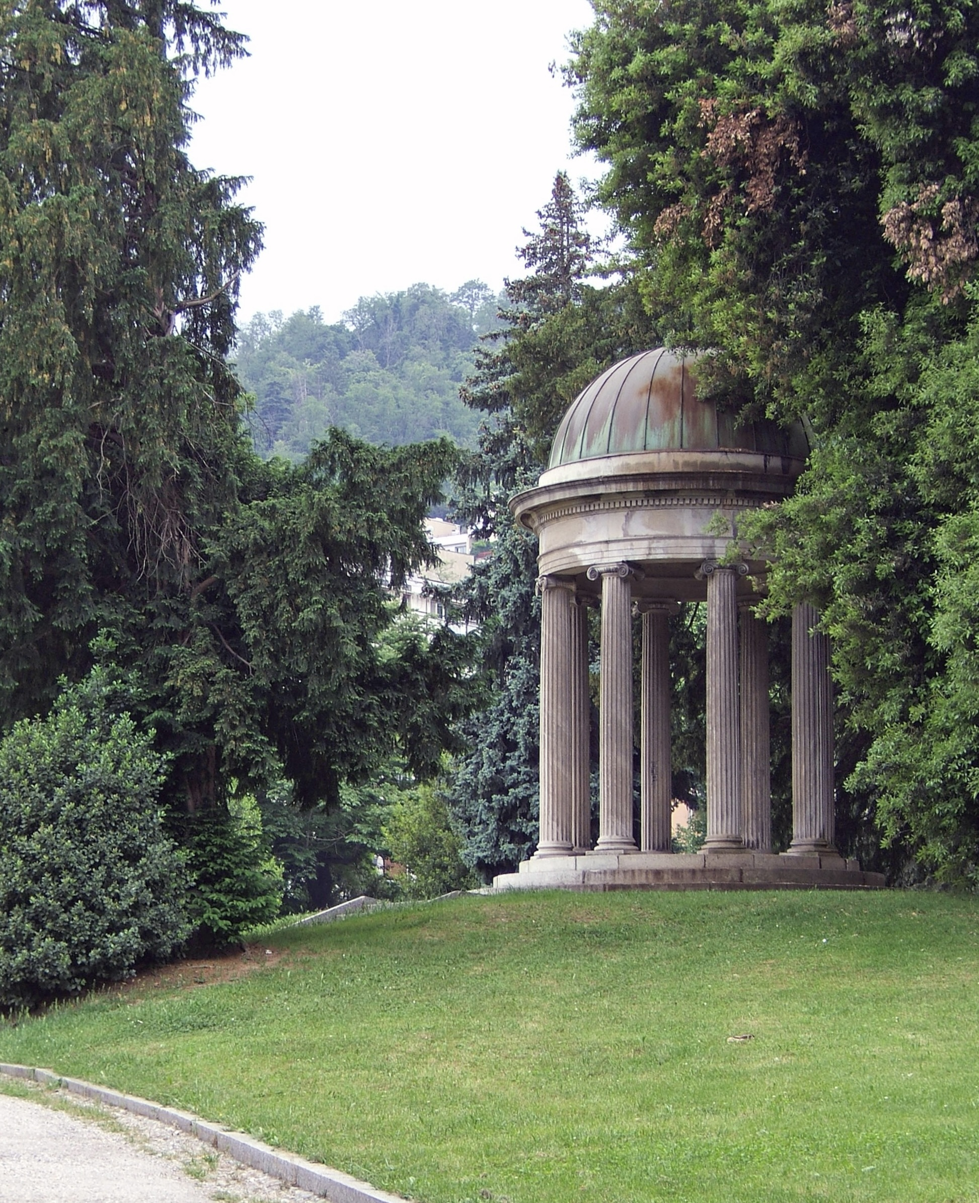 Villa Olmo - English Garden, Como